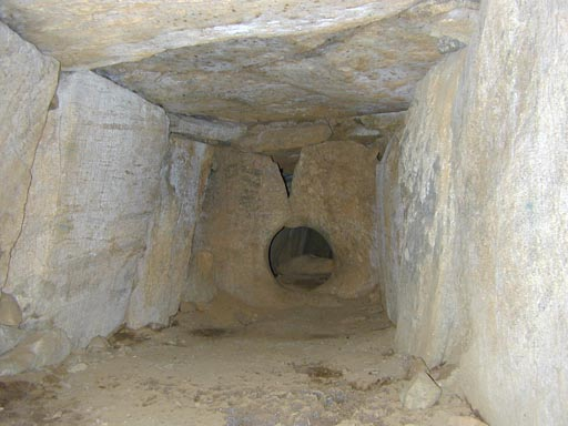 A Late Neolithic Gallery grave in Norra Säm Parish, Gäsene Hundred, Herrljunga Municipality, Västergötland, Västra Götaland County, Sweden.